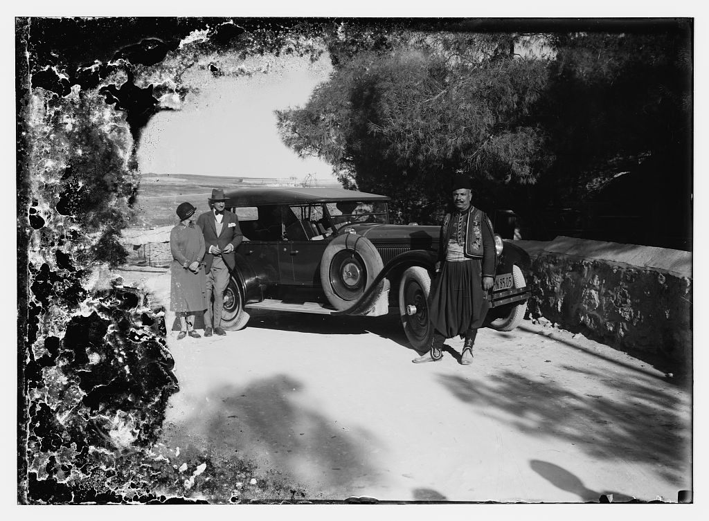 American Consul Heiser [ie., Oscar S. Heizer] and wife beside auto